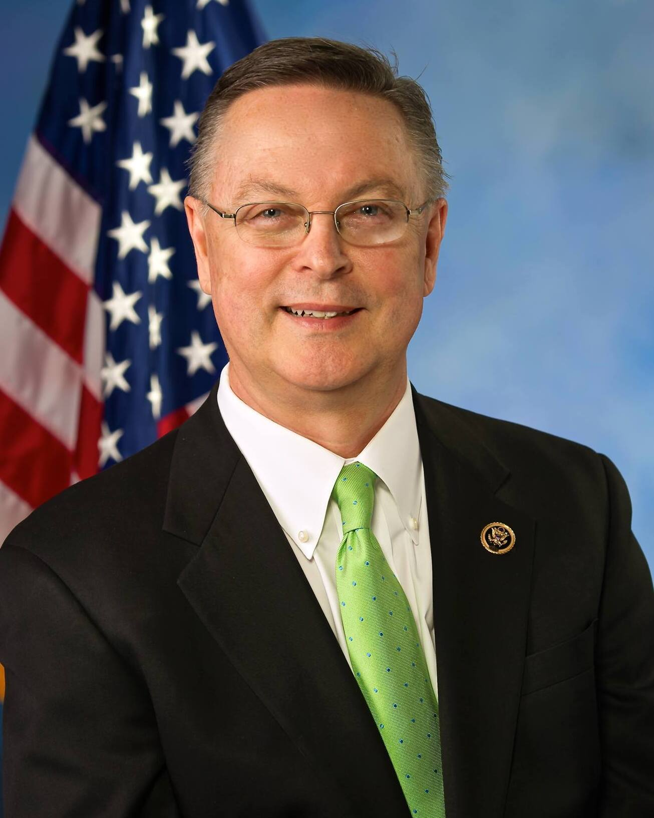 Rod Blum official portrait, 114th Congress